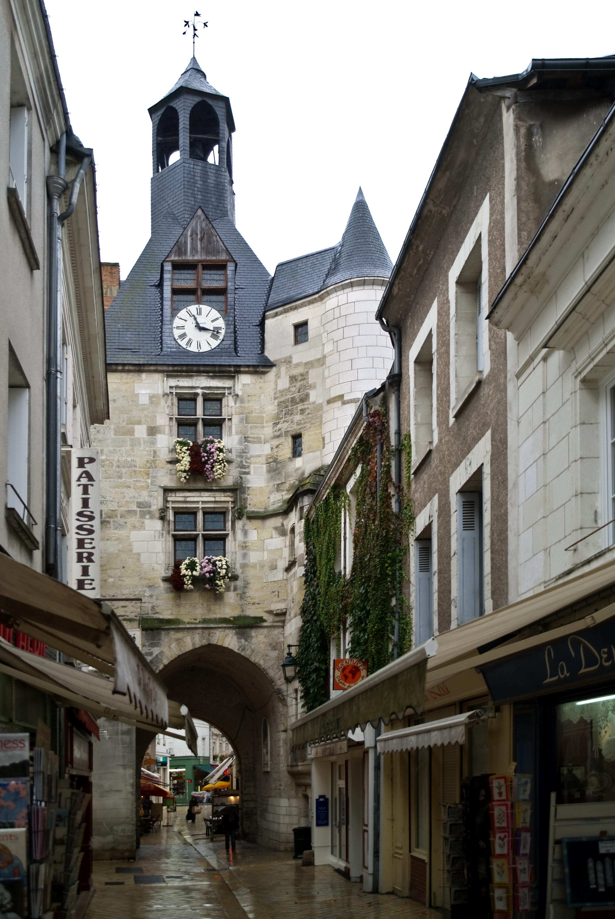 Amboise (Indre-et-Loire ; France): Tour de l'Horloge (the Clock Tower), formerly called Porte de l'Amasse.